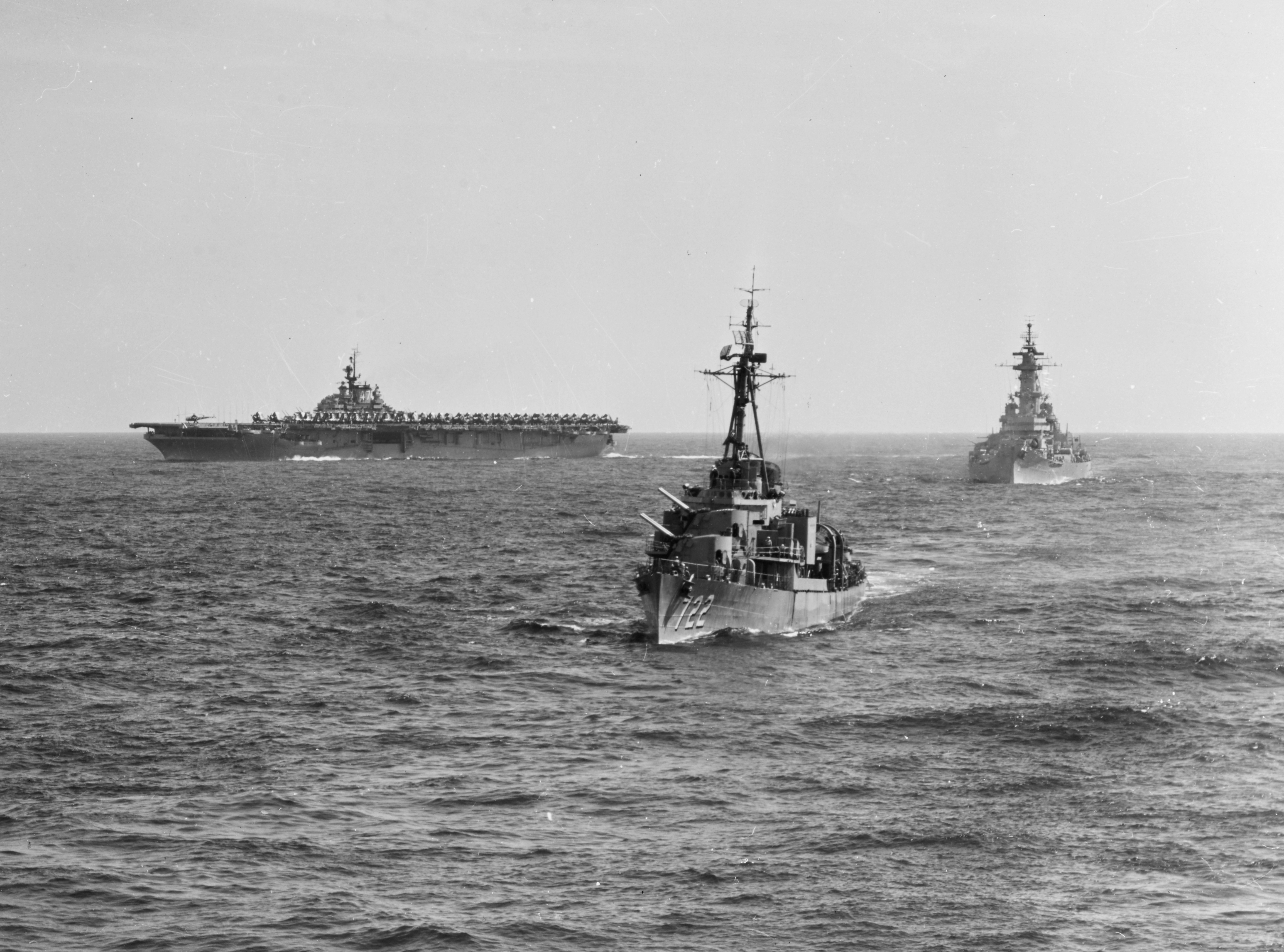 The U.S. Navy aircraft carrier USS Philippine Sea (CV-47), the destroyer USS Barton (DD-722) and the battleship USS Iowa (BB-61) operating in the Sea of Japan, off Korea, during replenishment operations on 1 July 1952. Philippine Sea, with assigned Carrier Air Group 11 (CVG-11), was deployed to the Western Pacific and Korea from 31 December 1951 to 8 August 1952.